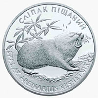 Ukrainian coin dedicated to Sandy Mole Rat (Spalax arenarius), a rare species living only in the territory of Ukraine, which is included to the Red Book of Ukraine and the European Red List of animals and plants under the danger of extermination. This image is of the coin's reverse — there is a depiction of the rodent on the background of plants (left) and inscriptions: СЛІПАК ПІЩАНИЙ (above) and SPALAX ARENARIUS RESHETNIK (beneath). Artist and sculptor: Volodymyr Demianenko.